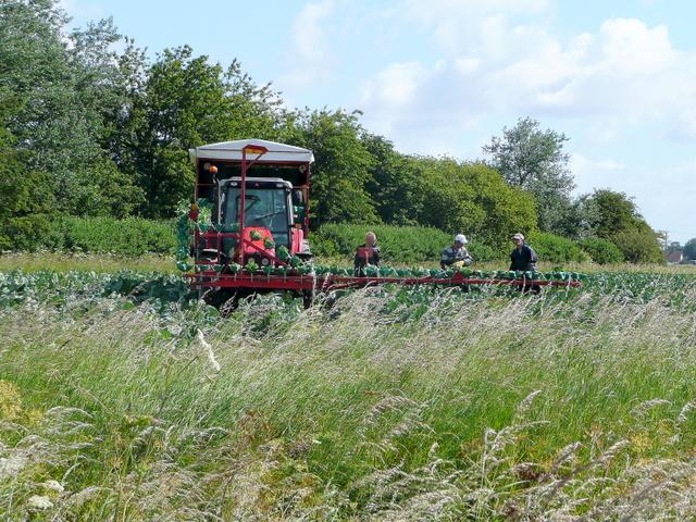 Cauliflower harvesting. North of Hurn Road in the heart of Lincolnshire vegetable-growing country. – The tractor is fitted with a ring conveyor rig, a sort of harvesting aid system. Cauliflowers are cut by hand, then placed onto the cups on the conveyor, which transports them to the trailer.